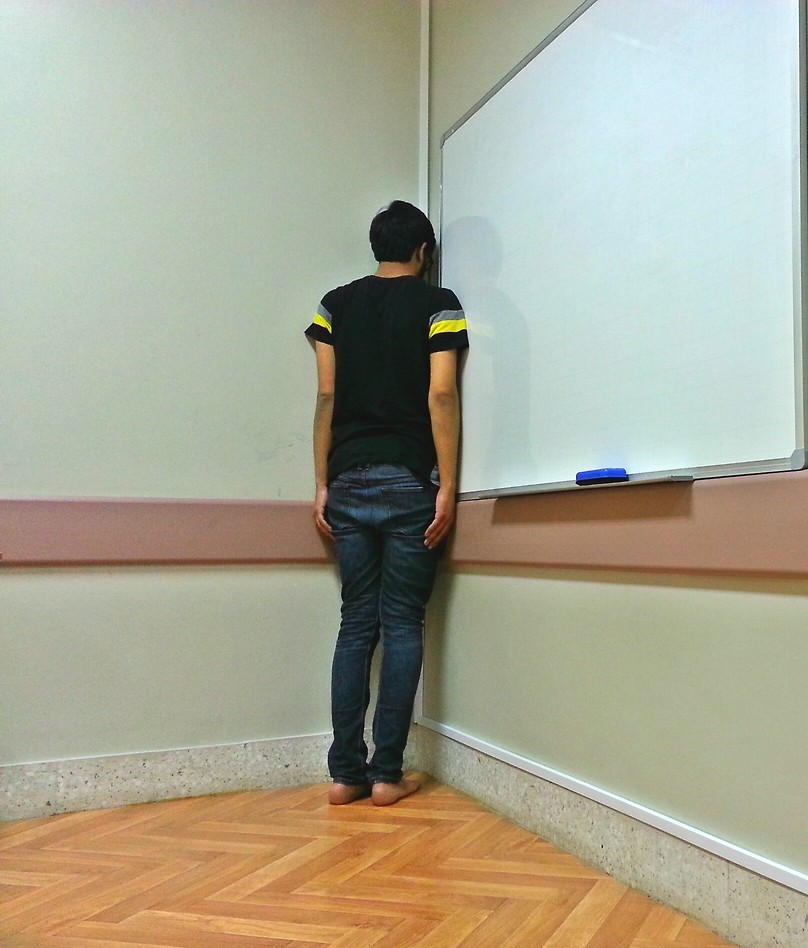 College student sent to the corner for cheating in a quiz.